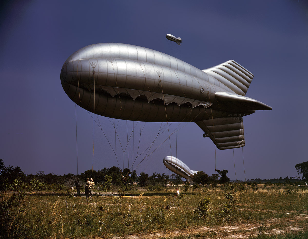 Color photograph (Kodachrome transparency) of Barrage balloon, Parris Island, South Carolina